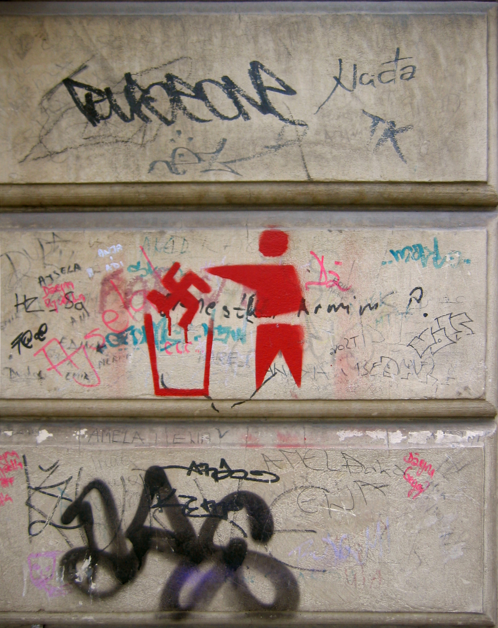 Antifascist graffiti on a building in Sarajevo.